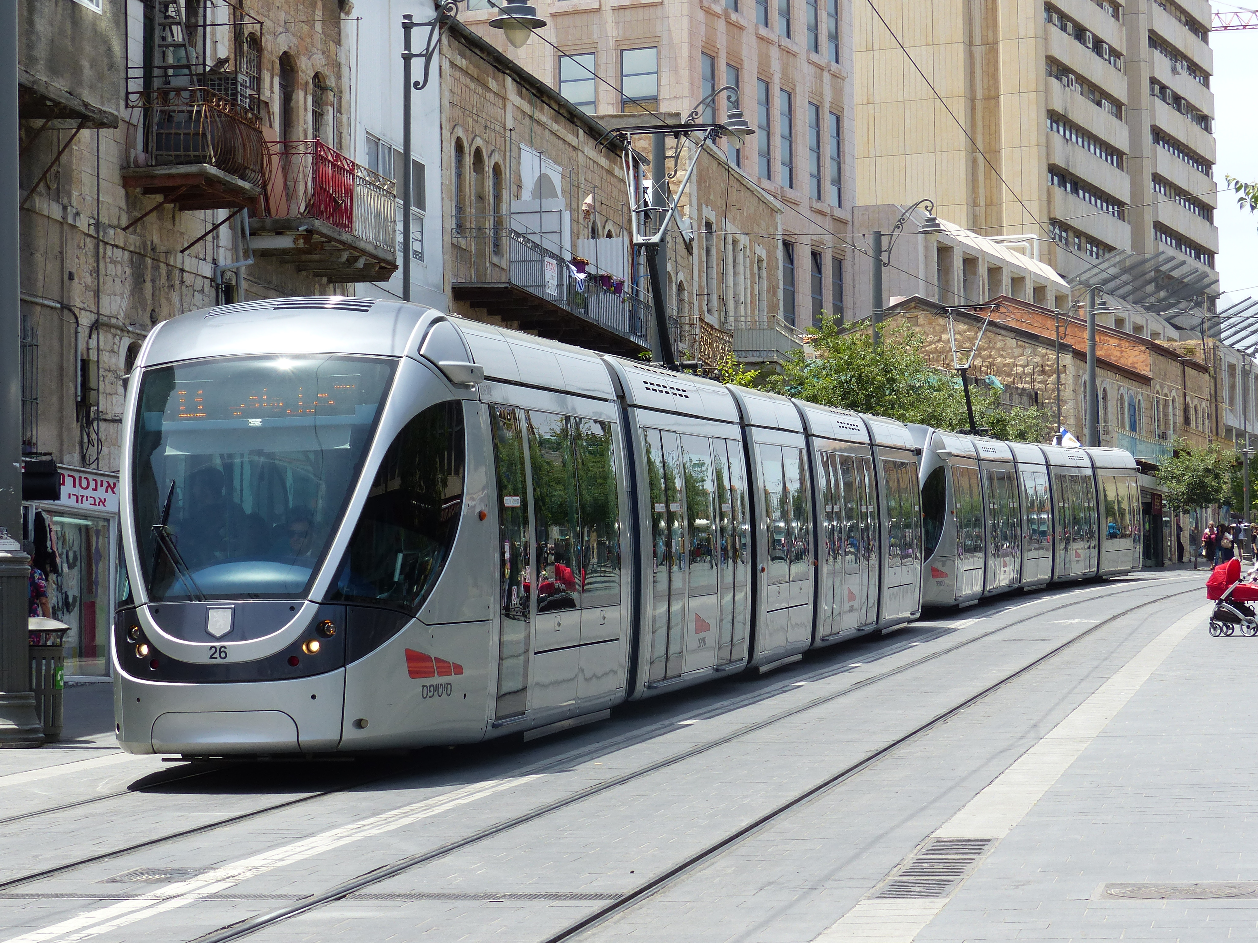 Train consisting of two Citadis 302 of the Jerusalem Tram, at "Jaffa Center"